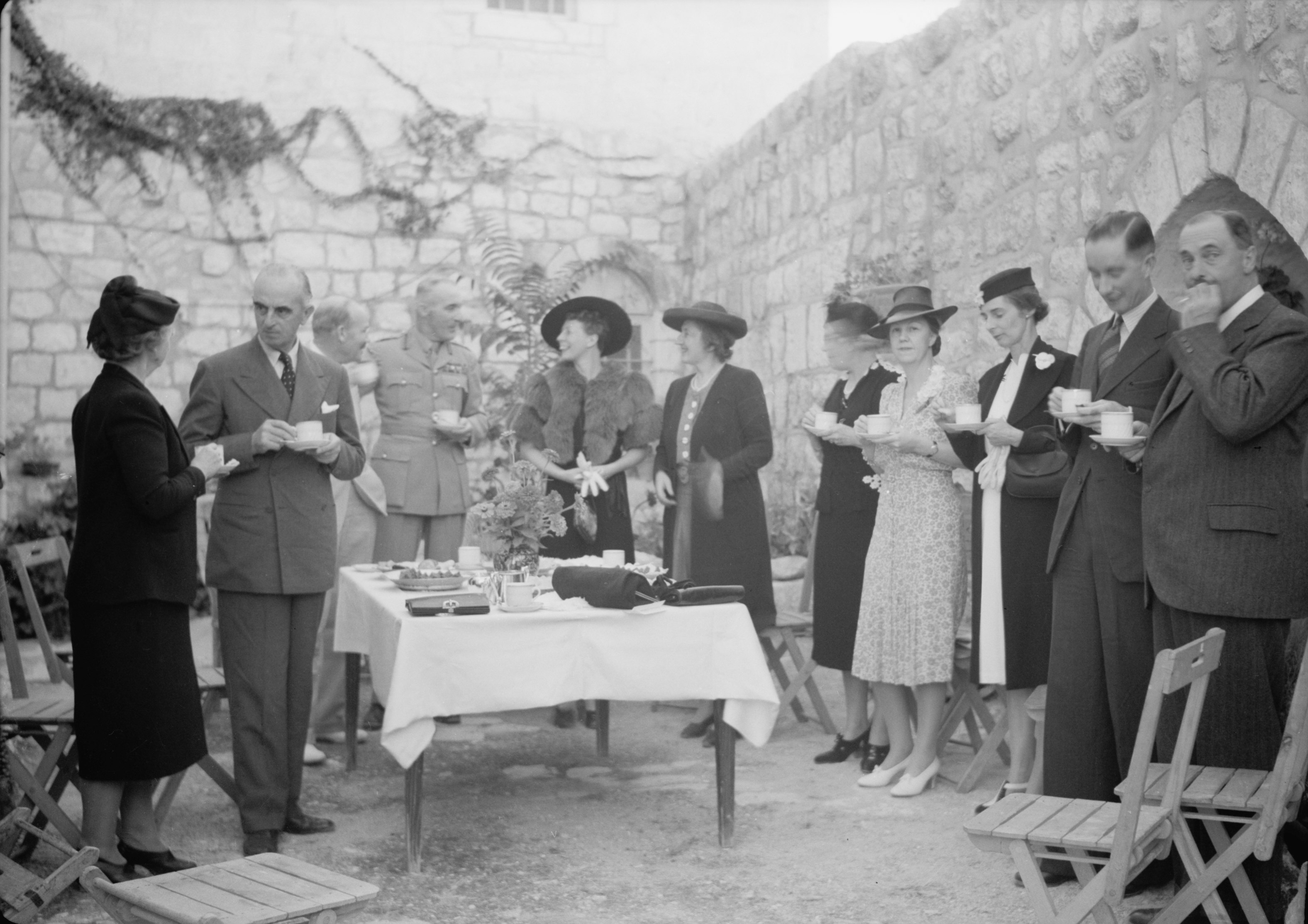 Title: 60th Anniversary of A.C. [i.e., American Colony] in Jer. [i.e., Jerusalem] H.E. (i.e., His Excellency) & party at tea with group, speaking to Mrs. Whiting Abstract/medium: G. Eric and Edith Matson Photograph Collection Physical description: 1 negative